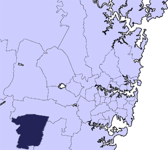 Locator Map Camden lga sydney.png Based on Image:Ku-ring-gai sydney.png by User:Randwicked.